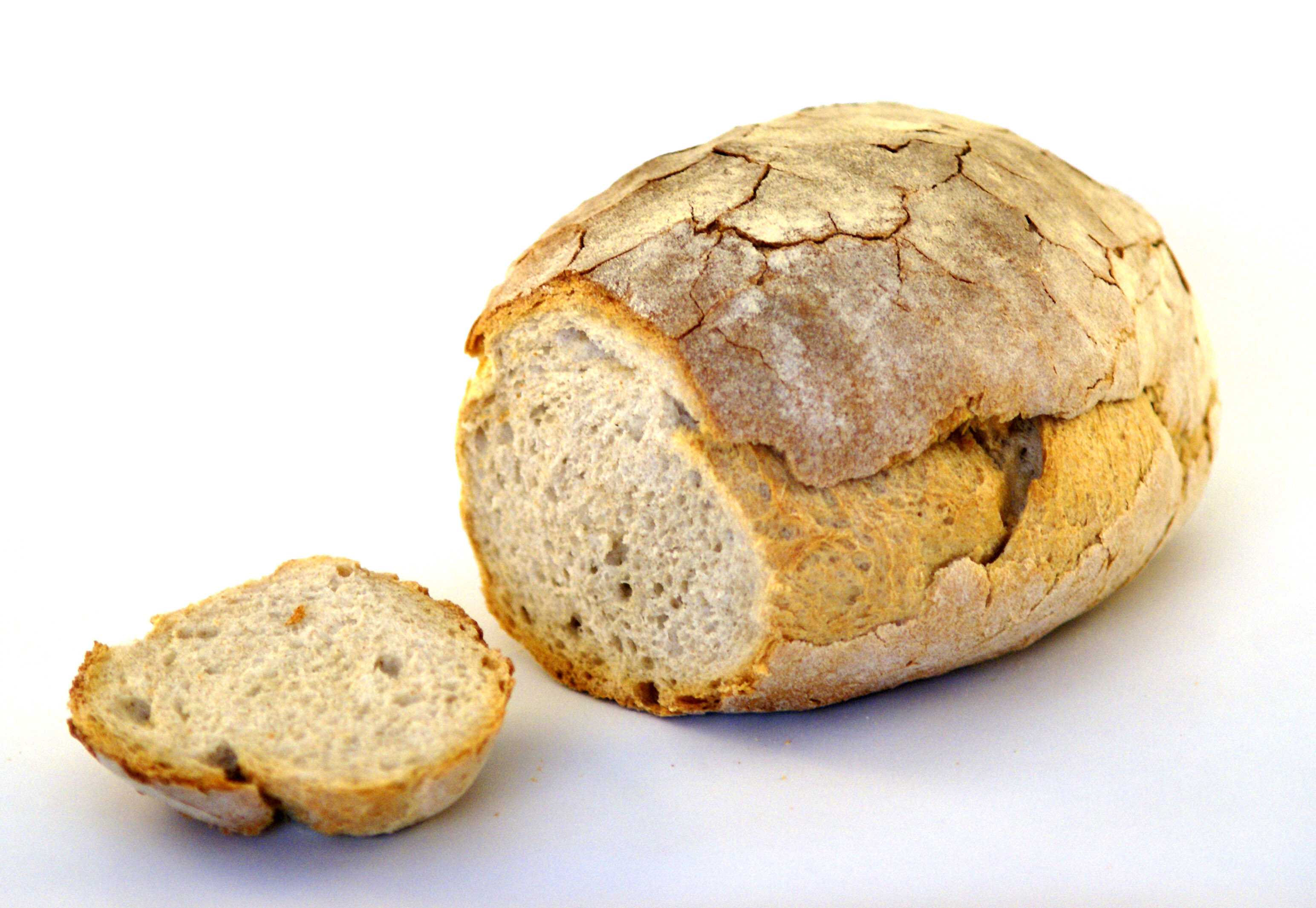 Basler Brot, a specialty bread from Switzerland.